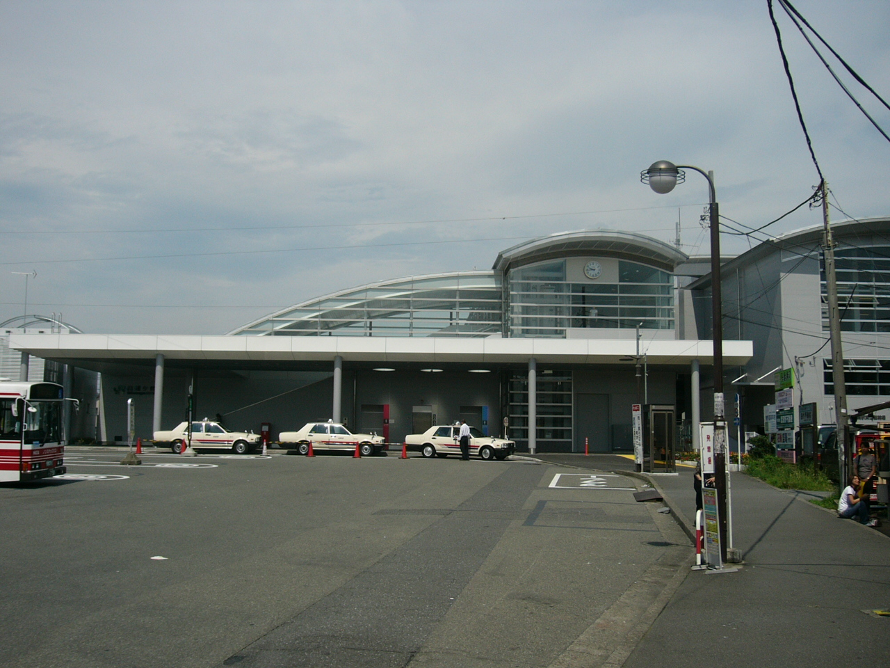 Hakonegasaki Station (East Entrance)